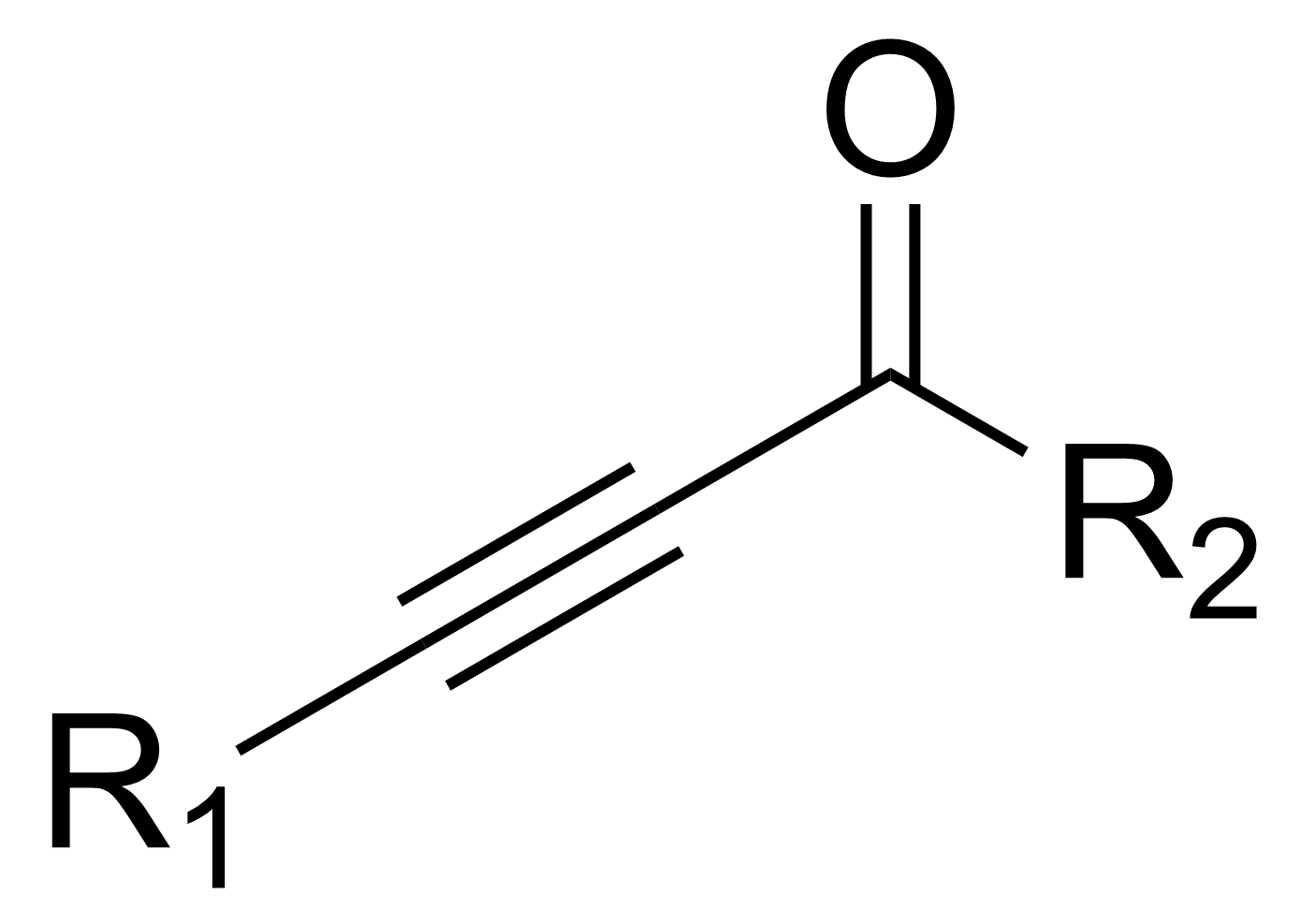 General structure of ynones.